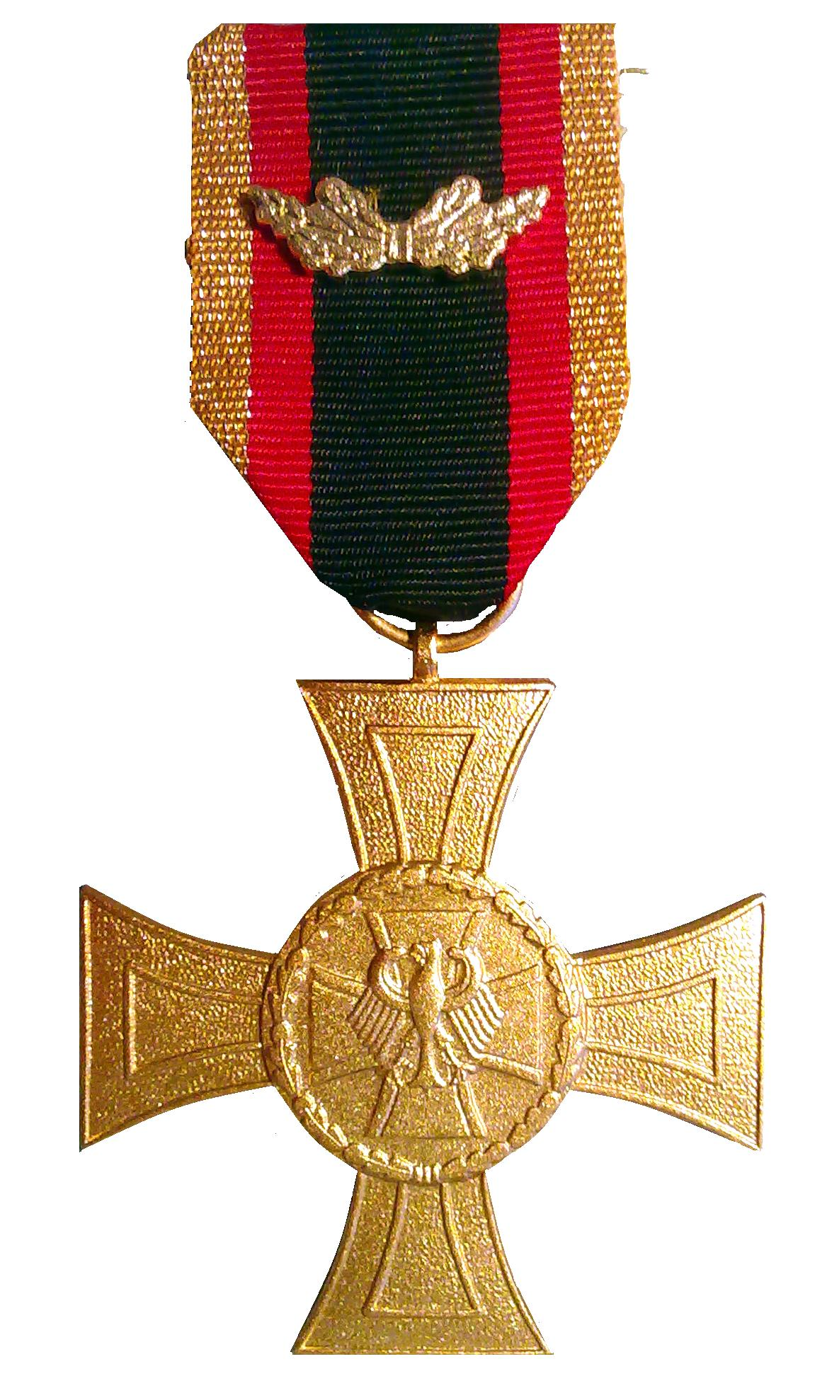 The highest current military award for courage in the Federal Republic of Germany